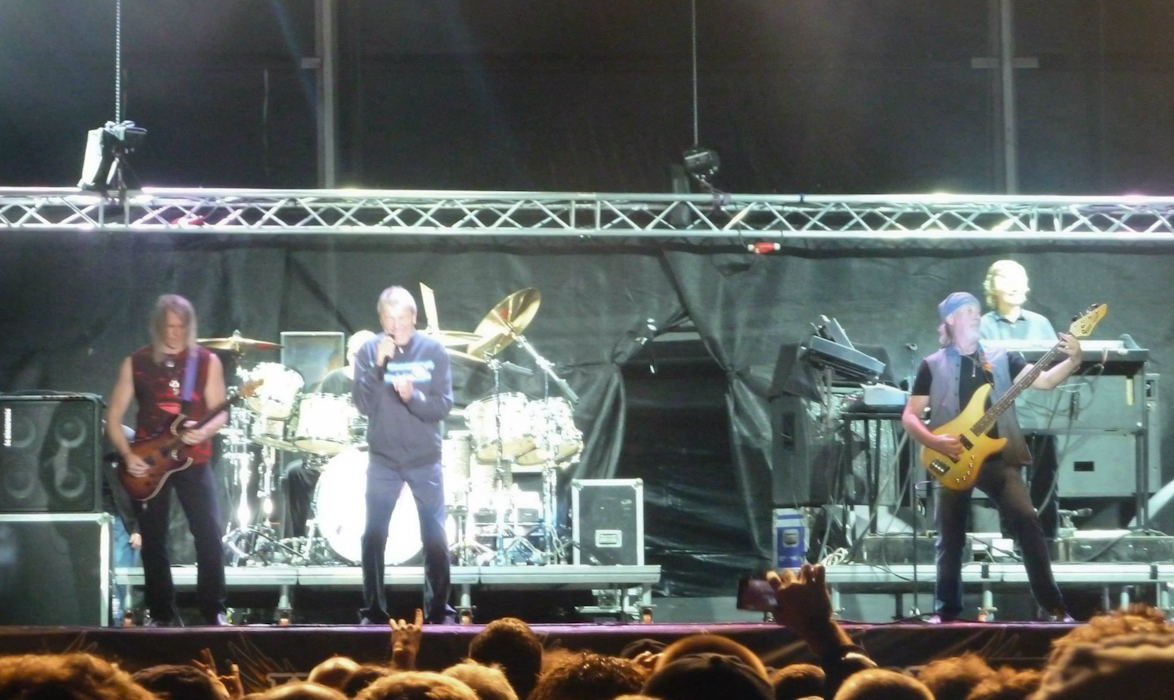 The British rock band Deep Purple performing at Kavarna Rock Fest 2013, Bulgaria.